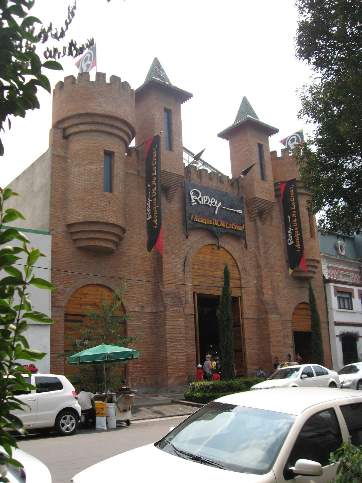 Ripley's Believe it or Not Museum located on Londres Street in Colonia Juarez in Mexico City